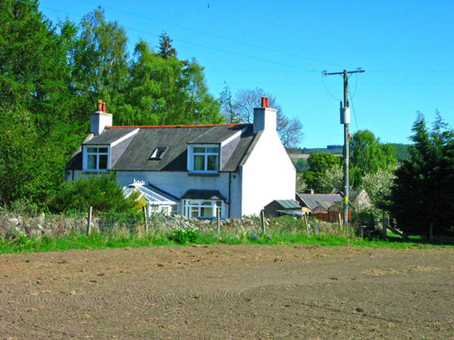 Mills of Drum The site of an old meal mill which can be seen behind the house. There are now three houses on this property.